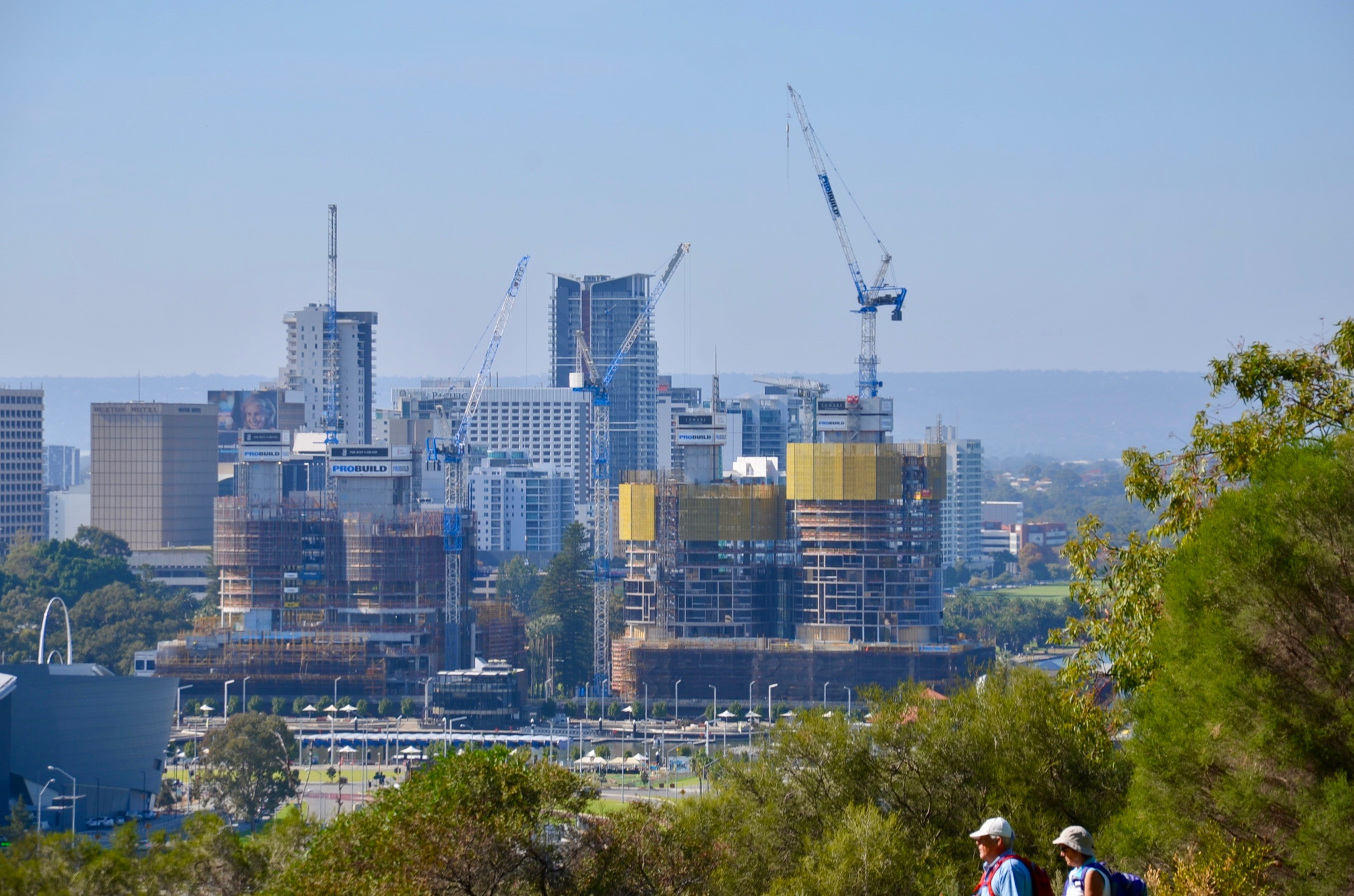 From Kings Park looking east, cranes and structures on the east side of Elizabeth Quay in May 2018